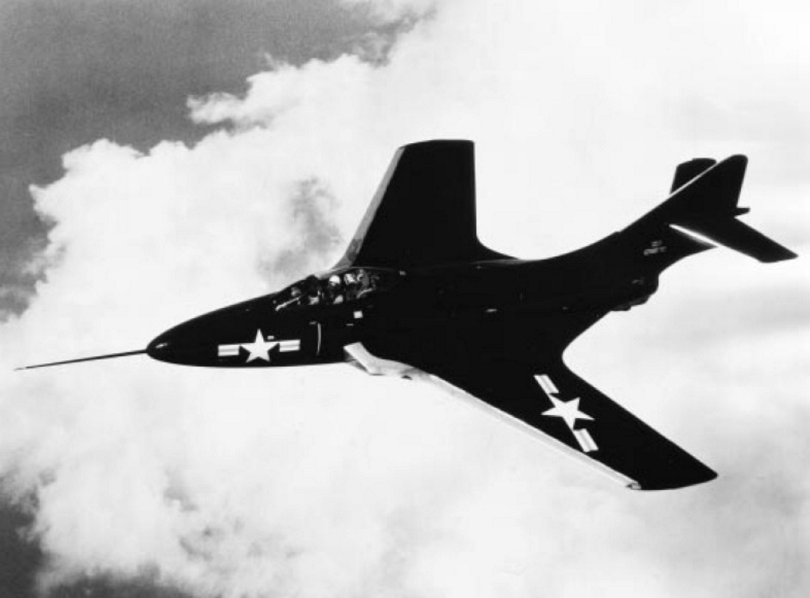 The first U.S. Navy Grumman XF9F-6 Cougar fighter (BuNo 126670) in flight, circa 1952. This plane made its first flight on 20 September 1951 and is (of 2015) in storage at the National Air and Space Museum, Paul E. Garber Preservation, Restoration, and Storage Facility, Suitland, Maryland (USA).